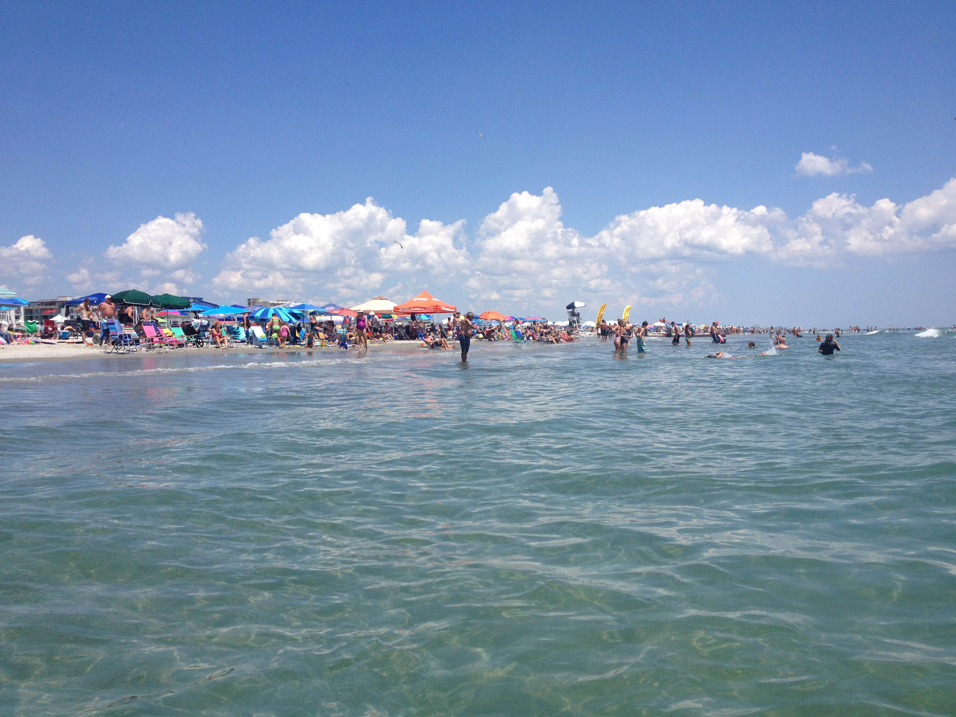 Diamond Beach in Wildwood Crest on July 24, 2015. This photo was created by Luigi Novi. It is not in the public domain, and use of this file outside of the licensing terms is a copyright violation.